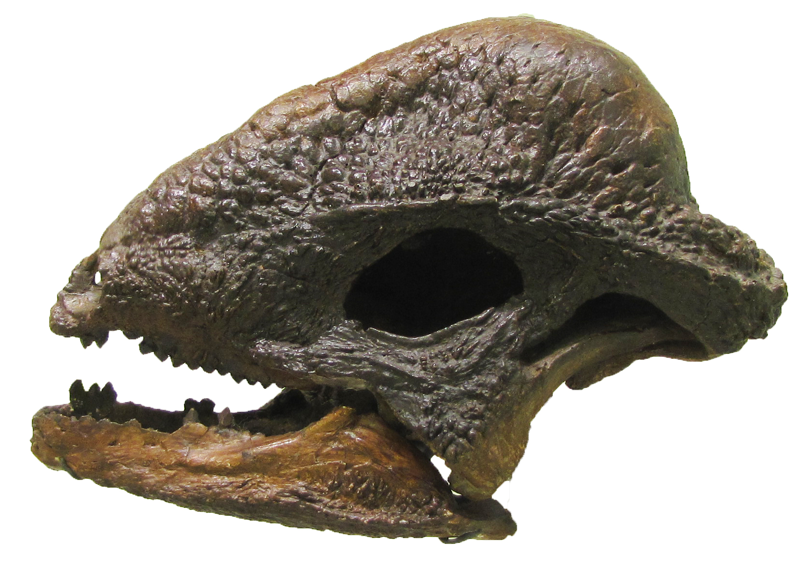 Skull of Stegoceras validum from the American Museum of Natural History of New York, U.S.